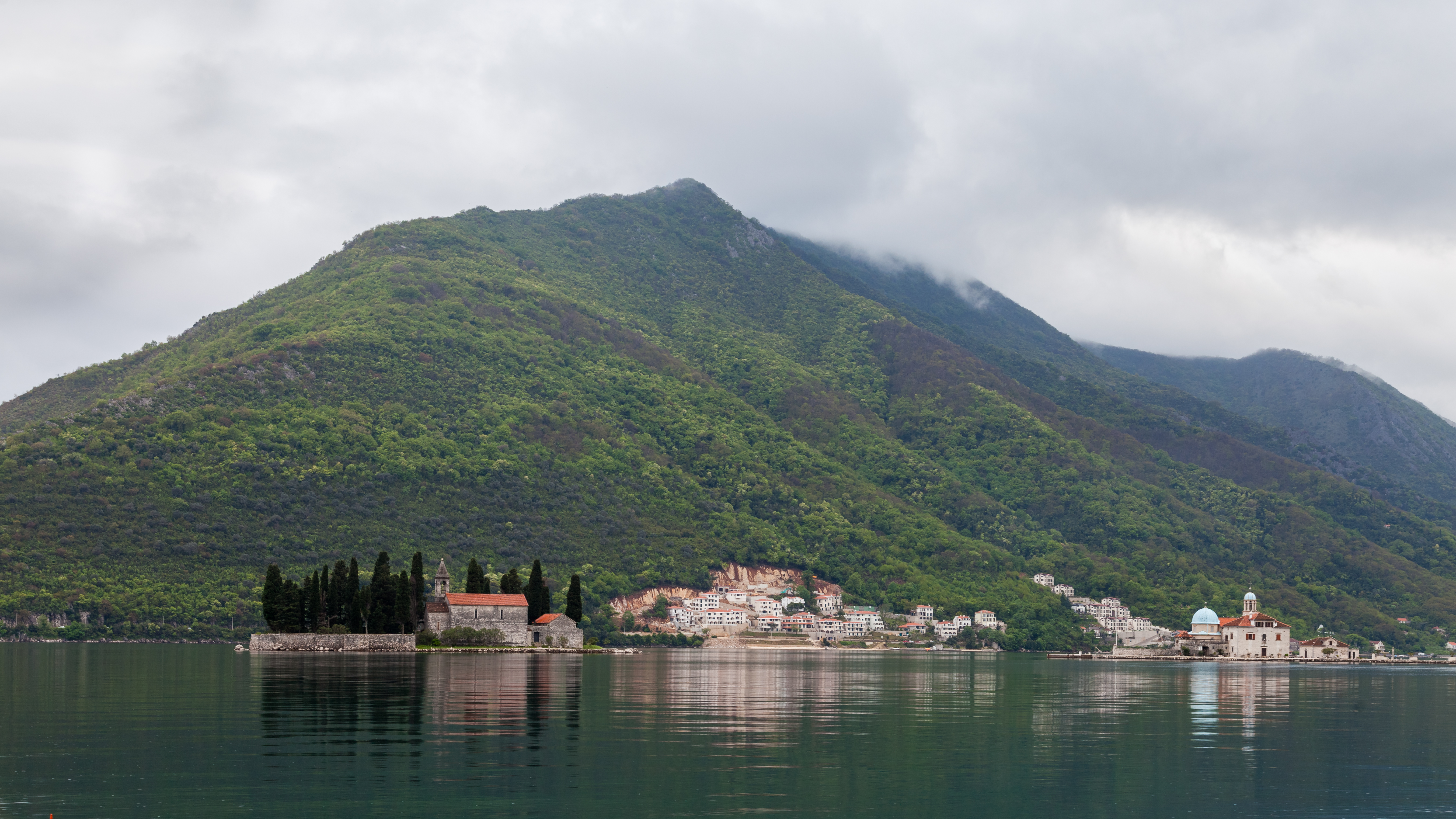 Our Lady of the Rocks and St George Monastery, Perast, Bay of Kotor, Montenegro